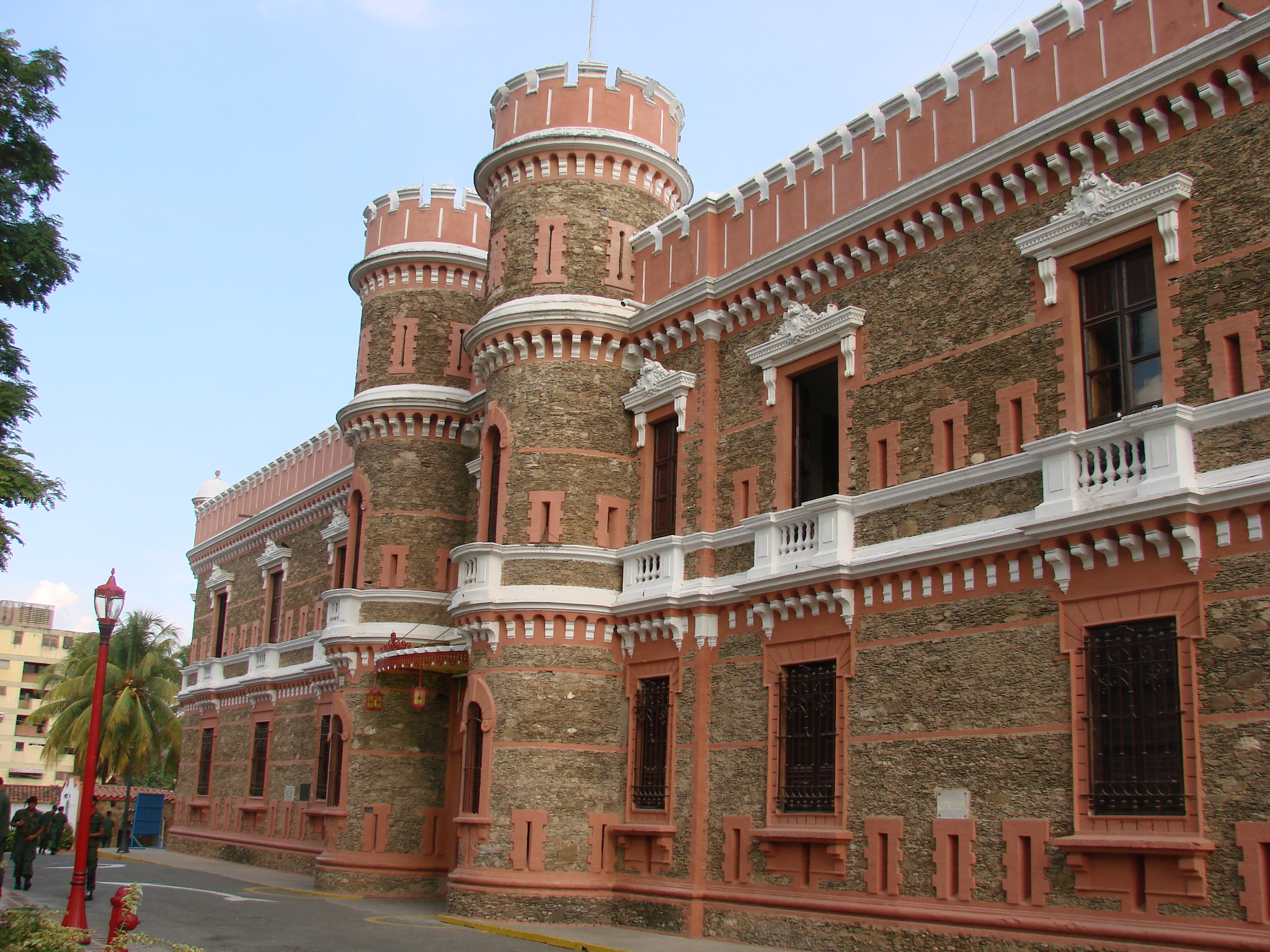 La Victoria — Spanish colonial era fortress. Located in Aragua - Venezuela.